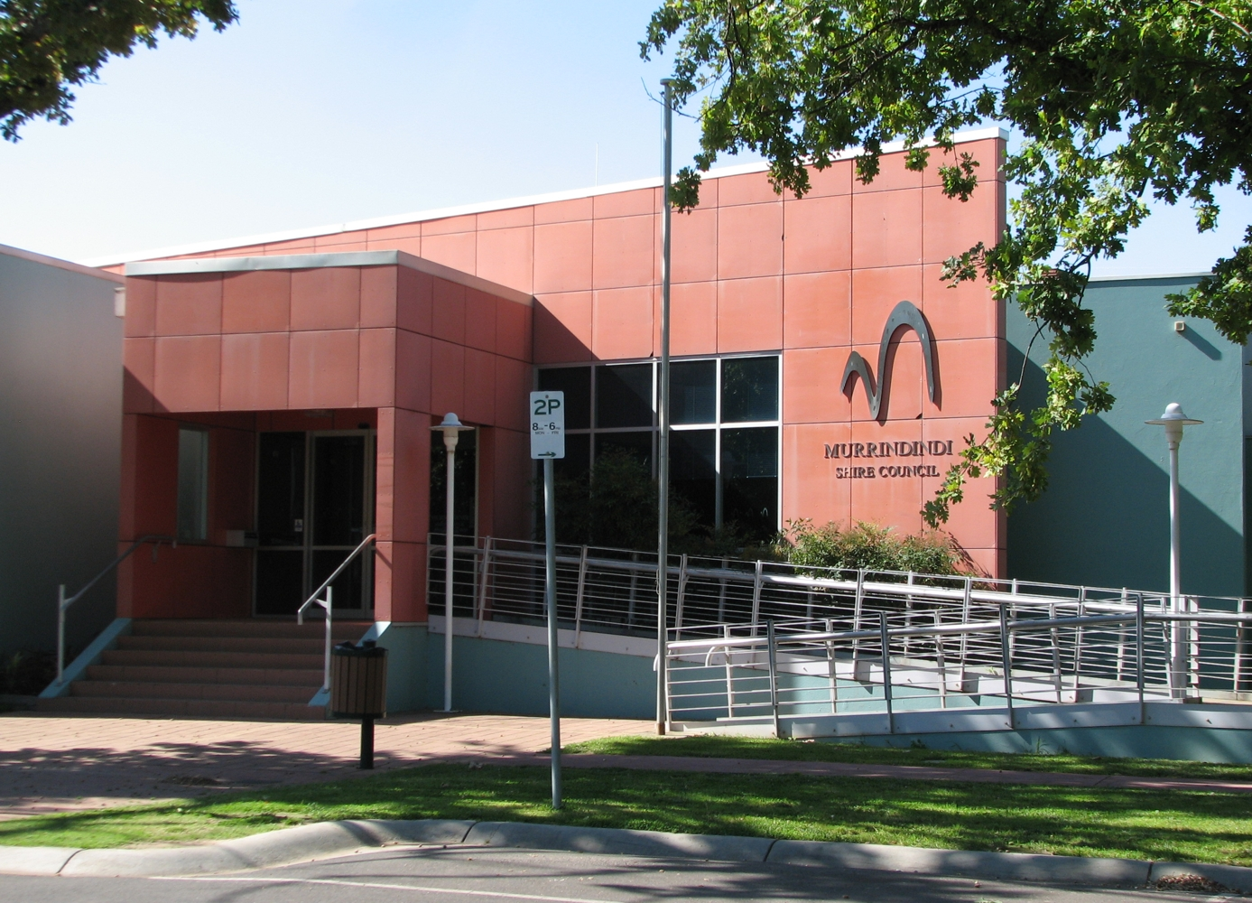 Murrundindi Shire offices, Alexandra, Victoria, Australia.